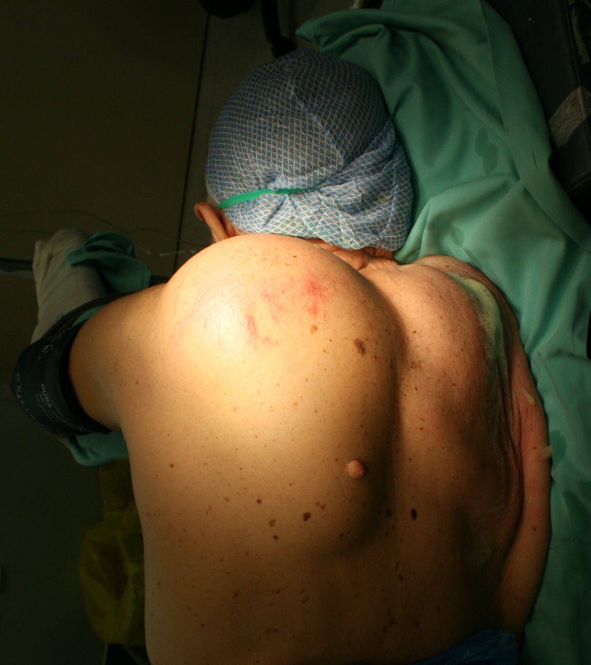 87 year old man with a liposarcoma. Preoperative image of the patient